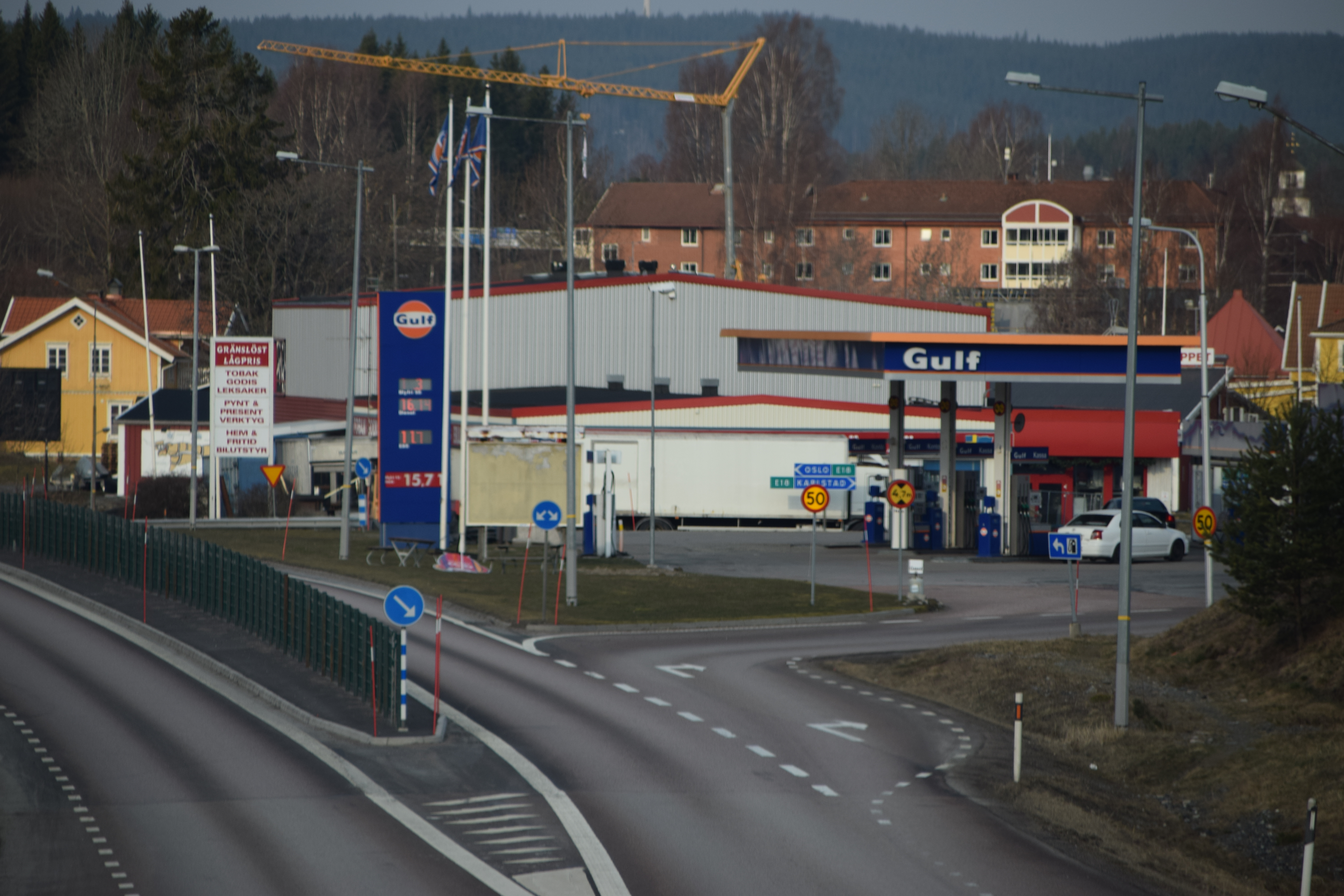 Centre of Töcksfors with Gulf Oil gas station